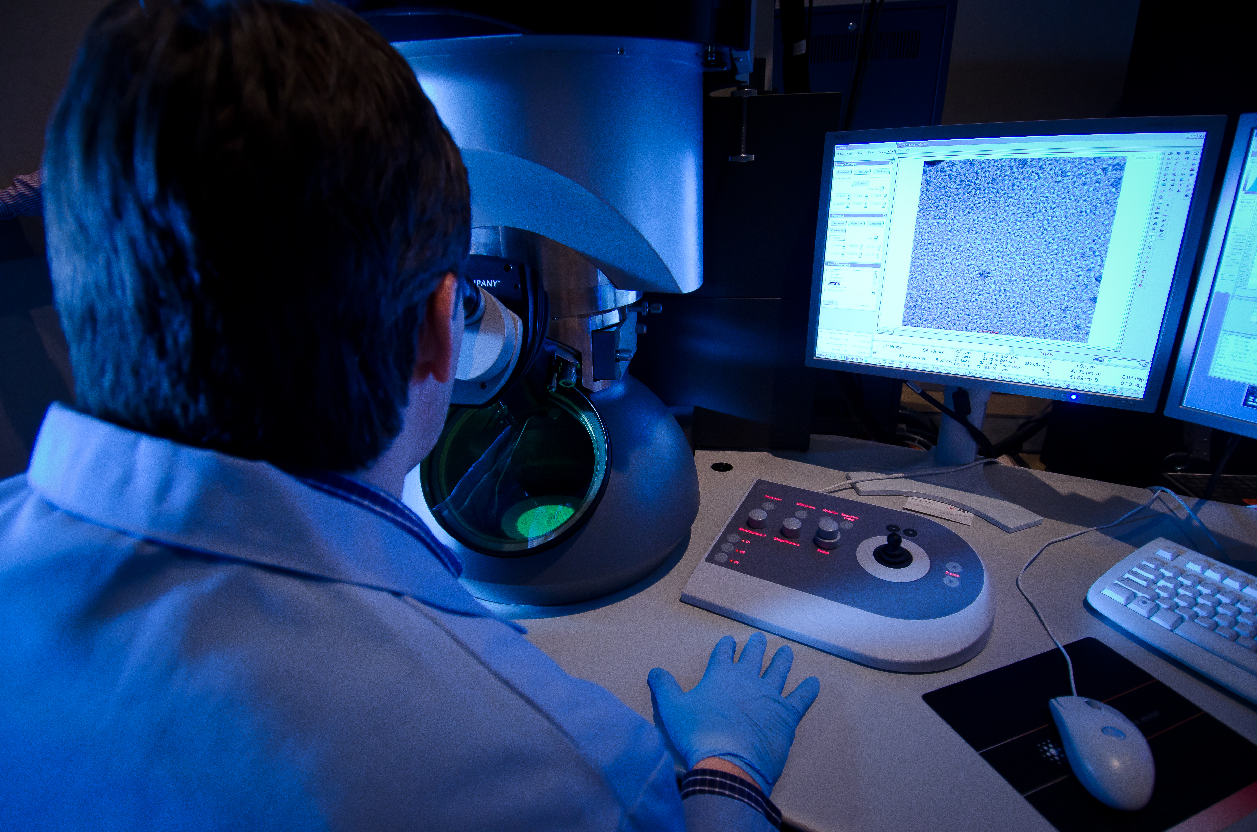 An EMSL scientist using the environmental transmission electron microscope housed at the Pacific Northwest National Laboratory. The ETEM provides in situ capabilities that enable atomic-resolution imaging and spectroscopic studies of materials under dynamic operating conditions.